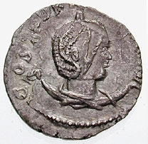 Sulpicia Dryantilla, wife of Regalianus. Circa 260 AD. Antoninianus (3.36 gm). Carnuntum mint. SVLP [DRYANTILLA AVG], diademed and draped bust right, resting on crescent [IVN]ONI RED[INE], Juno standing left, holding patera and sceptre. RIC V pt. 2, 2; Göbl C11, pl. 4, 11 (same dies); Cohen 1. Overstruck on a denarius of Maximinus Thrax. Following the capture of Valerian by the Persian army, one of Valerian's generals serving in Illyricum, Cornelius Publius Caius Regalianus, seized power. All of Regalianus' coinage has been attributed to a mint in Carnuntum (on the Danube between modern Hainburg and Bratislava in Hungary). His wife was Sulpicia Dryantilla, whose father, Sulpicius Pollio, was an officer under Caracalla. Regalianus was killed by his own troops after a very short reign and Dryantilla most likely shared his fate.